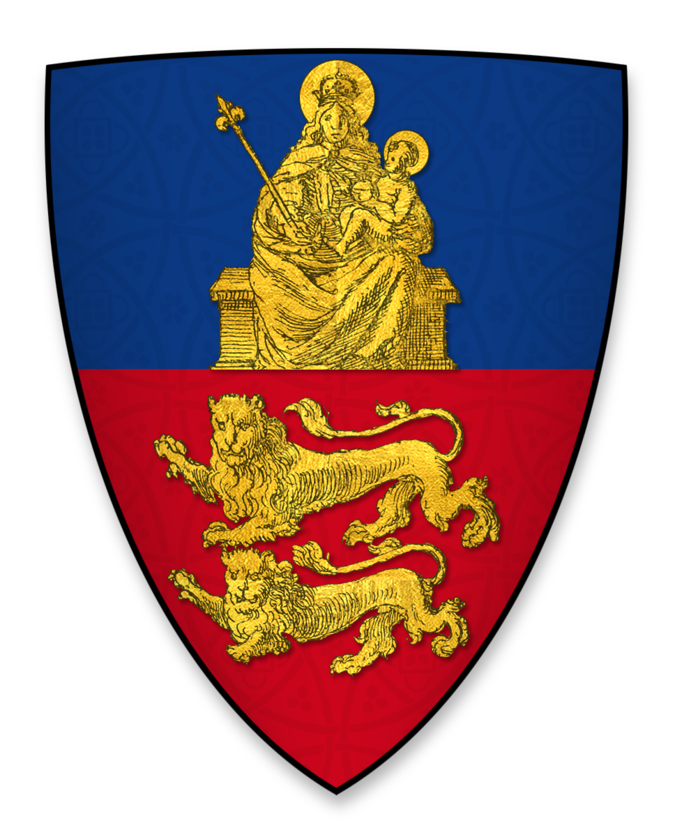 Arms displayed by Hugh de Wells, Bishop of Lincoln, at the signing of Magna Charta